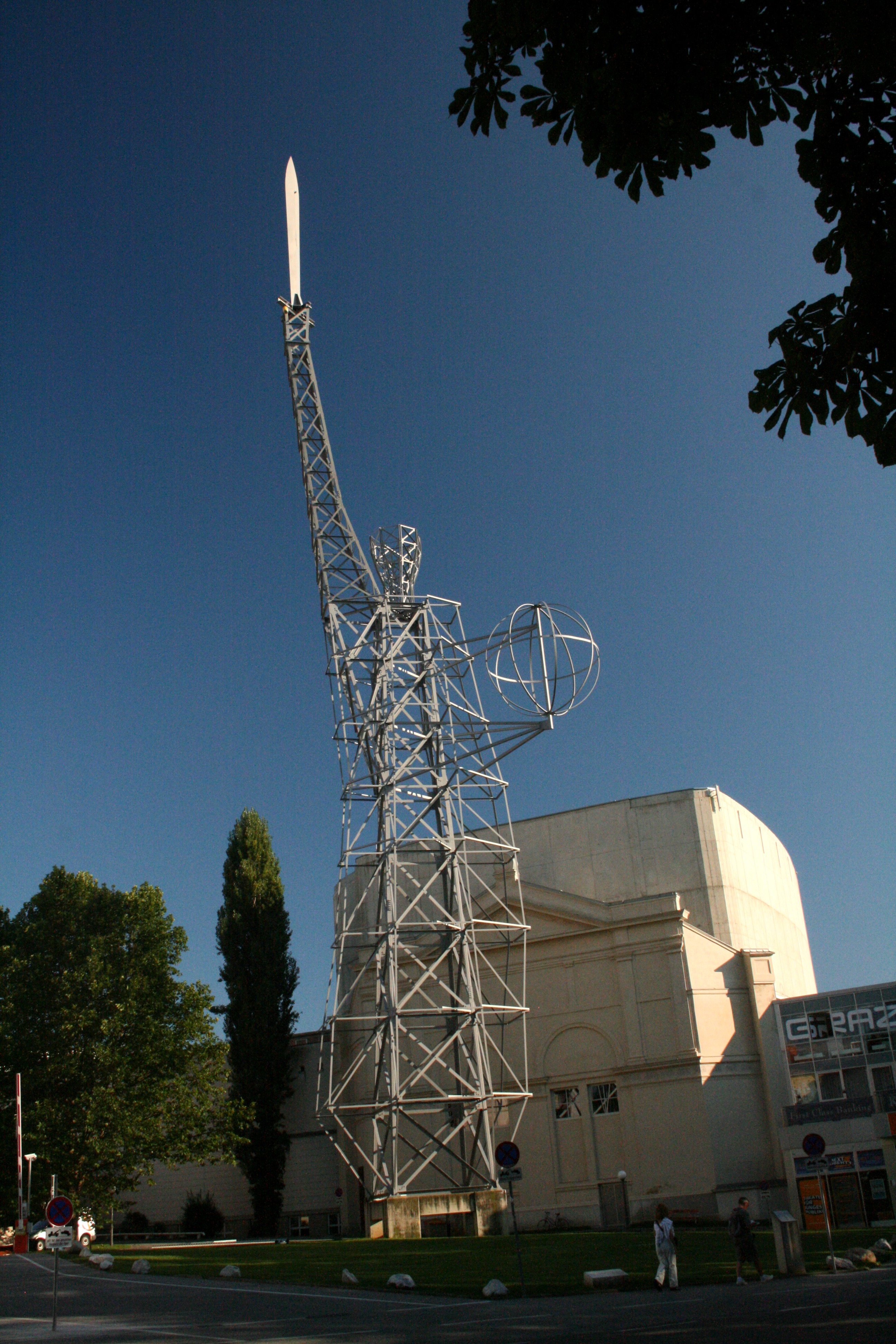 Sculpture "Lichtschwert" in front of the opera house in Graz, Austria, Europe